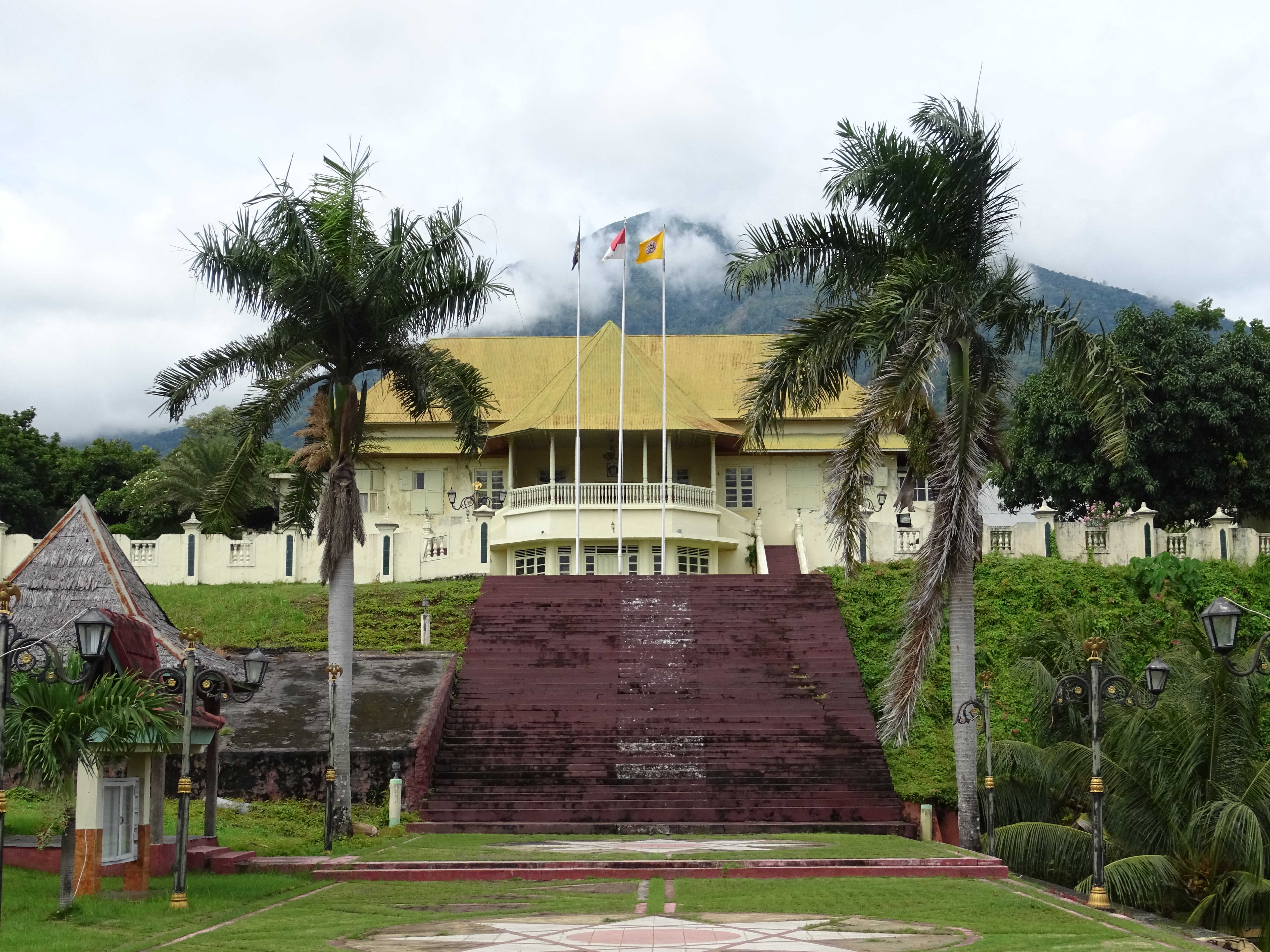 Keraton (Sultan's palace) in the city of Ternate, Indonesia